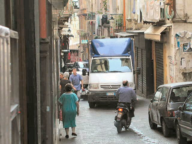 Spanish Quarter traffic